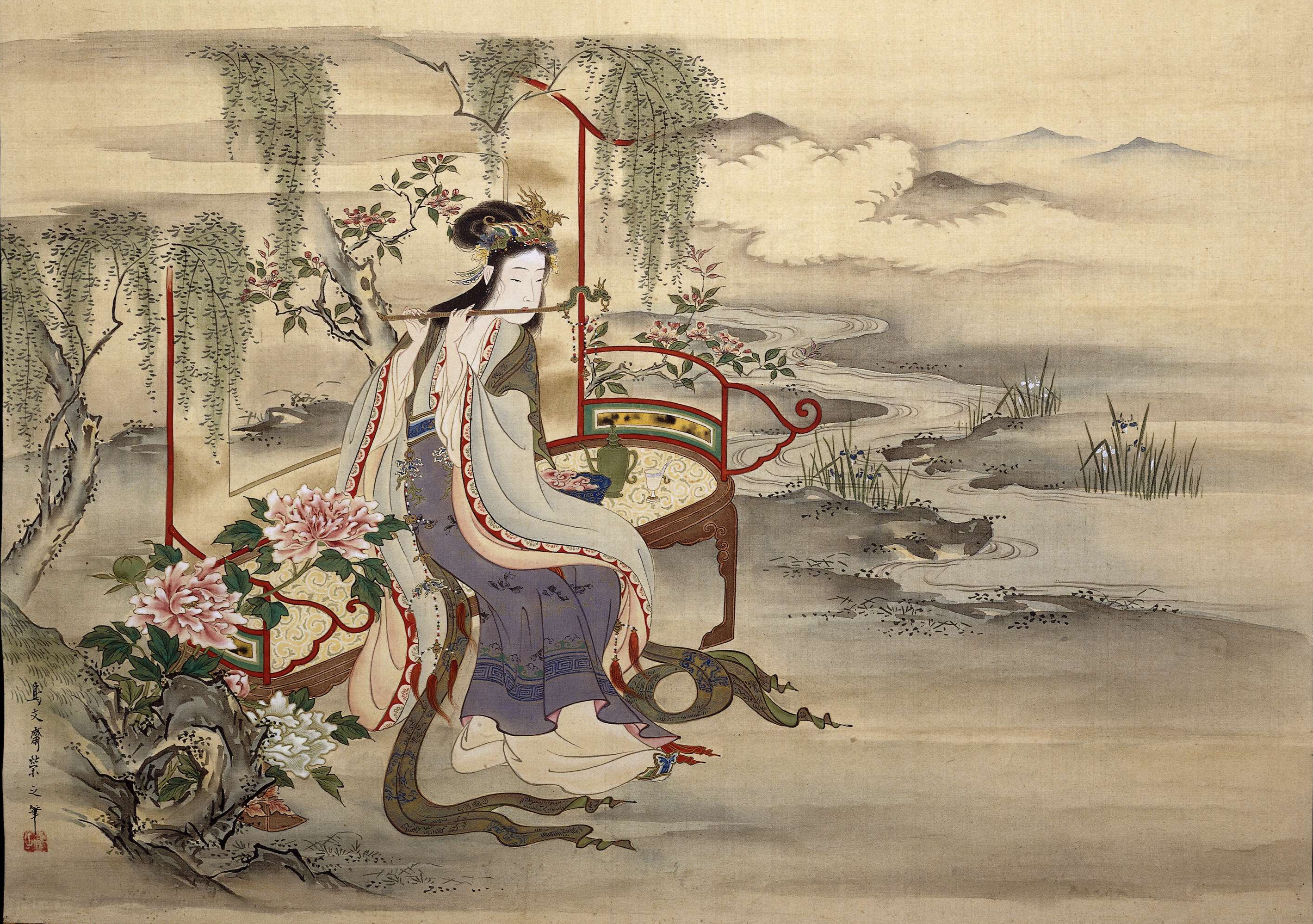 Depicts the Concubine Yang Gui Fei (719-756)